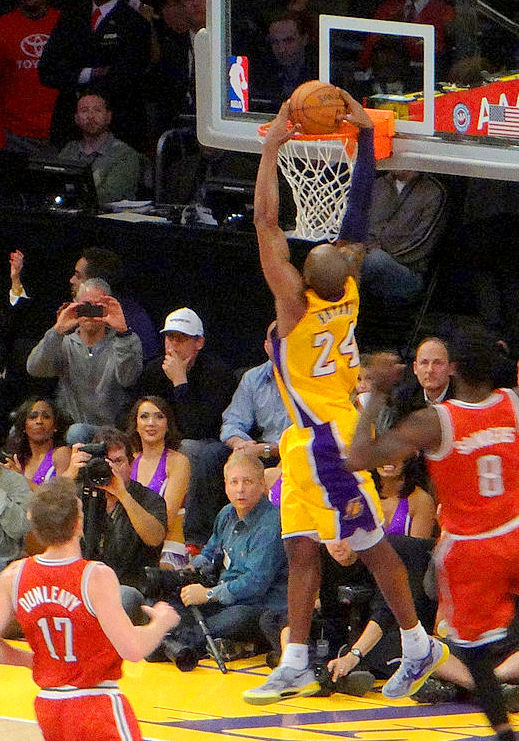 Kobe Bryant dunking against Milwaukee Bucks at Staples Center on 1/15/2013.